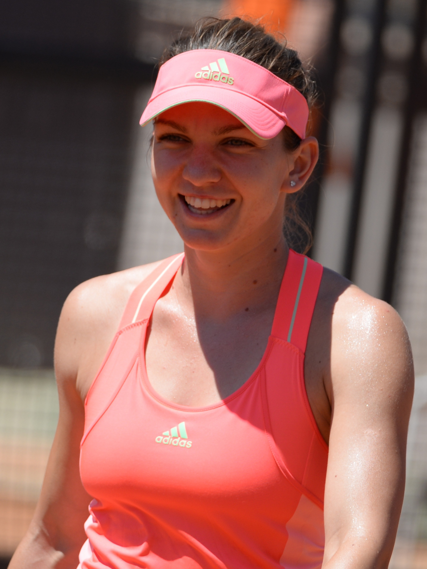 Simona Halep at the 2015 Internazionali BNL d'Italia